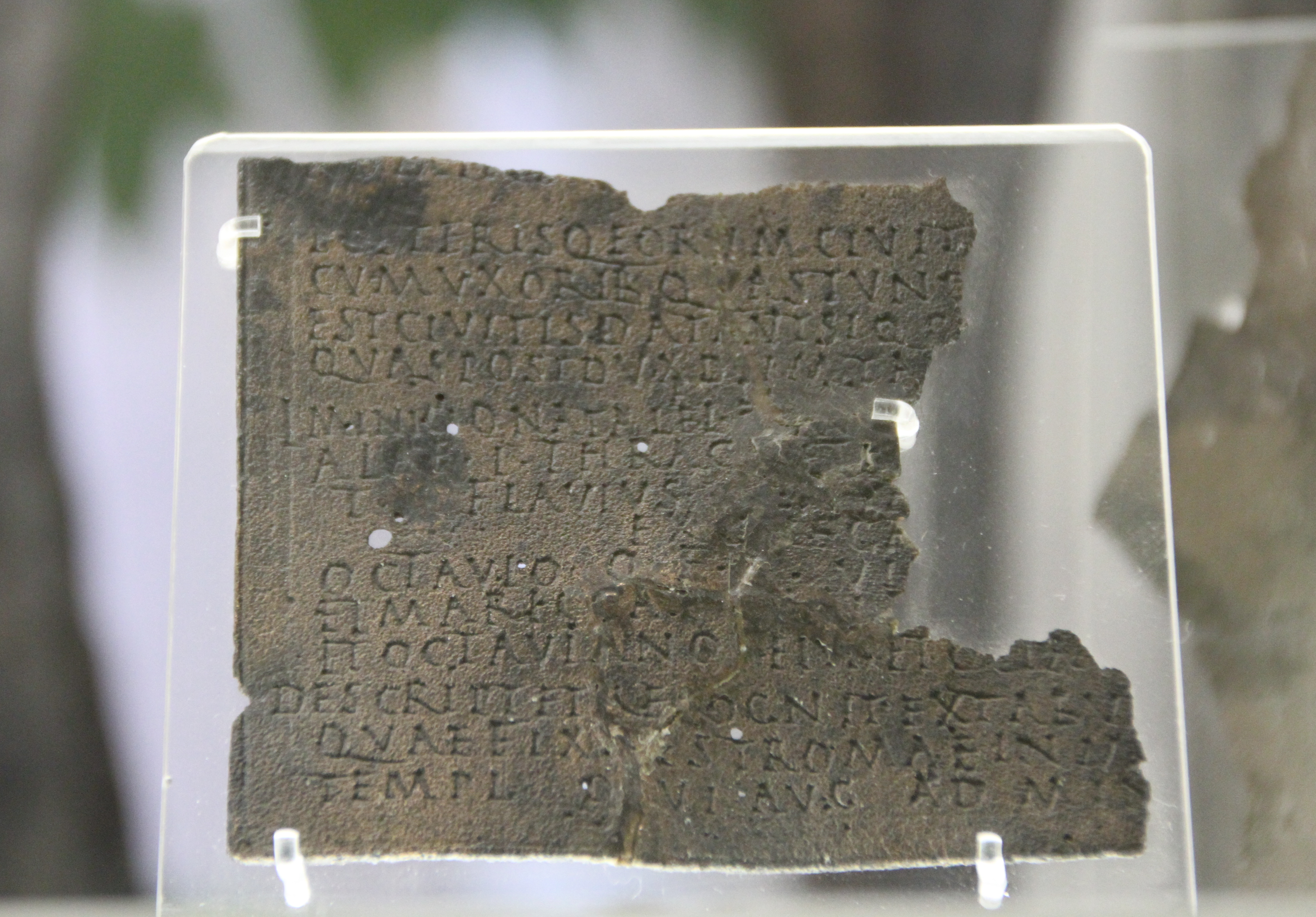 Ancient Roman military discharge document (diploma) issued in Aquincum, present-day Budapest, Hungary.